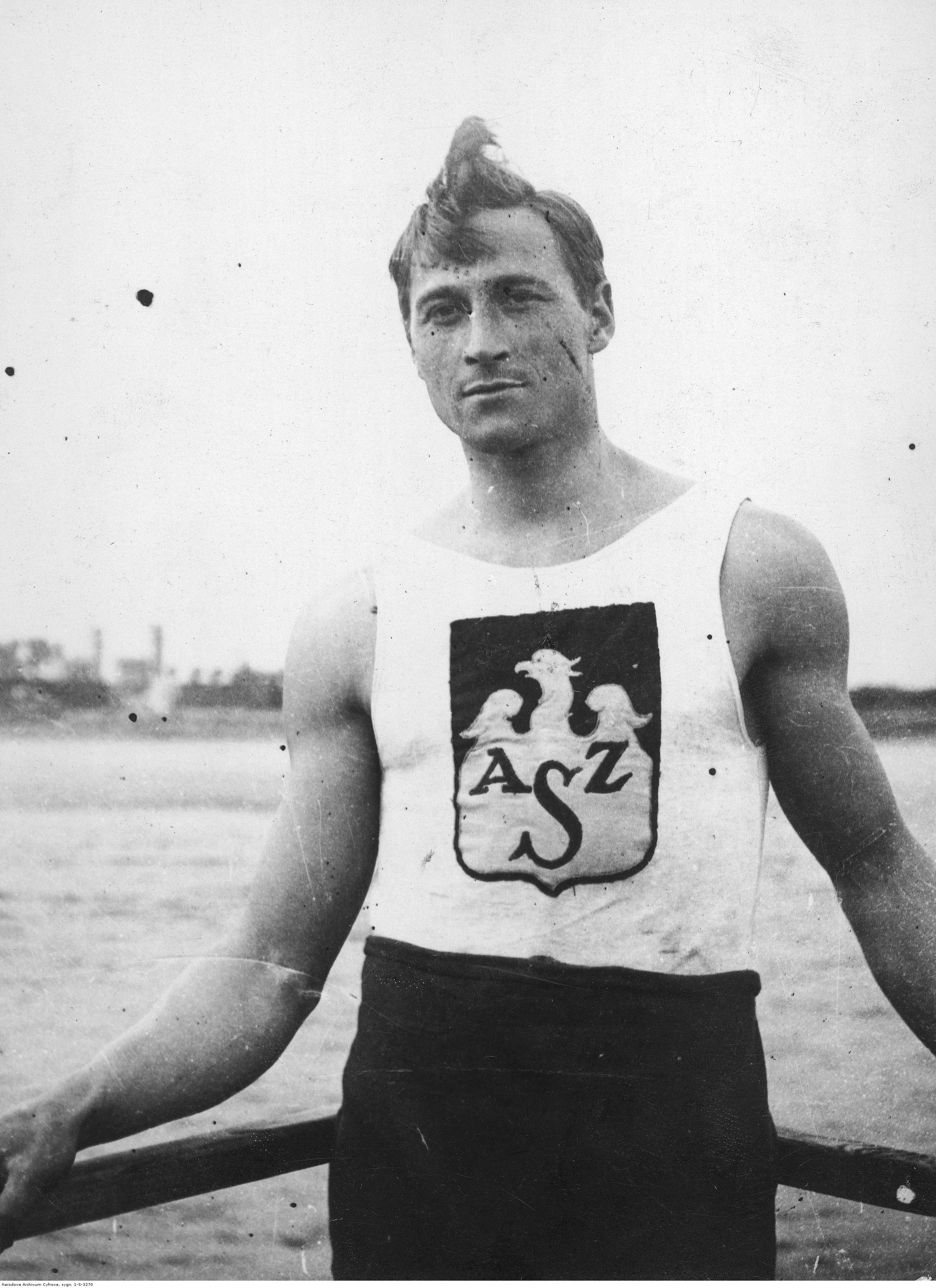 Henryk Niezabitowski in his rowing outfit